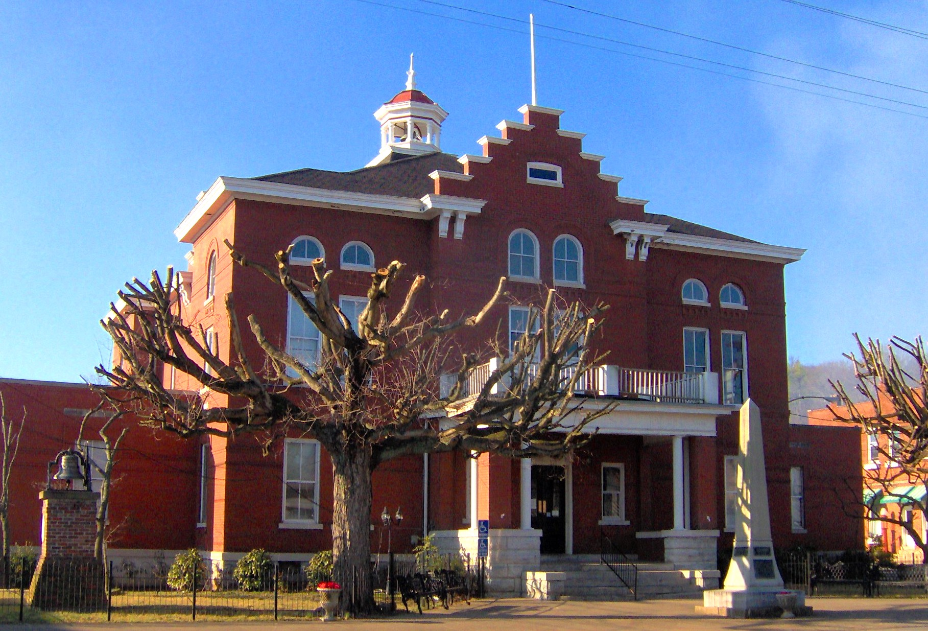 Trousdale County Courthouse in Hartsville, Tennessee, in the southeastern United States. The courthouse is part of the Hartsville Historic District, which became a U.S. Registered Historic District in 1993.